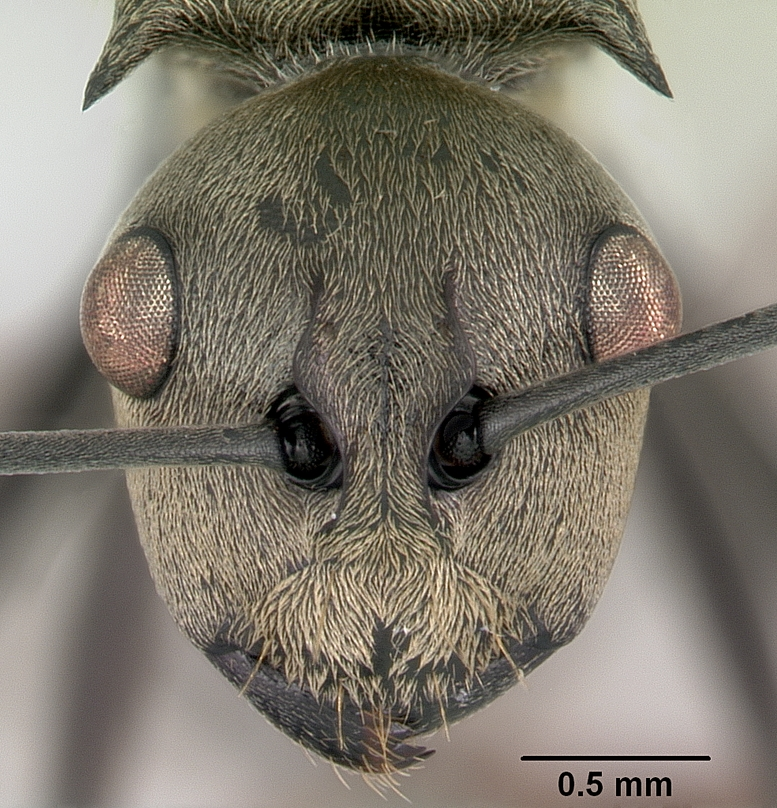 Head view of ant Polyrhachis aberrans specimen casent0103181.